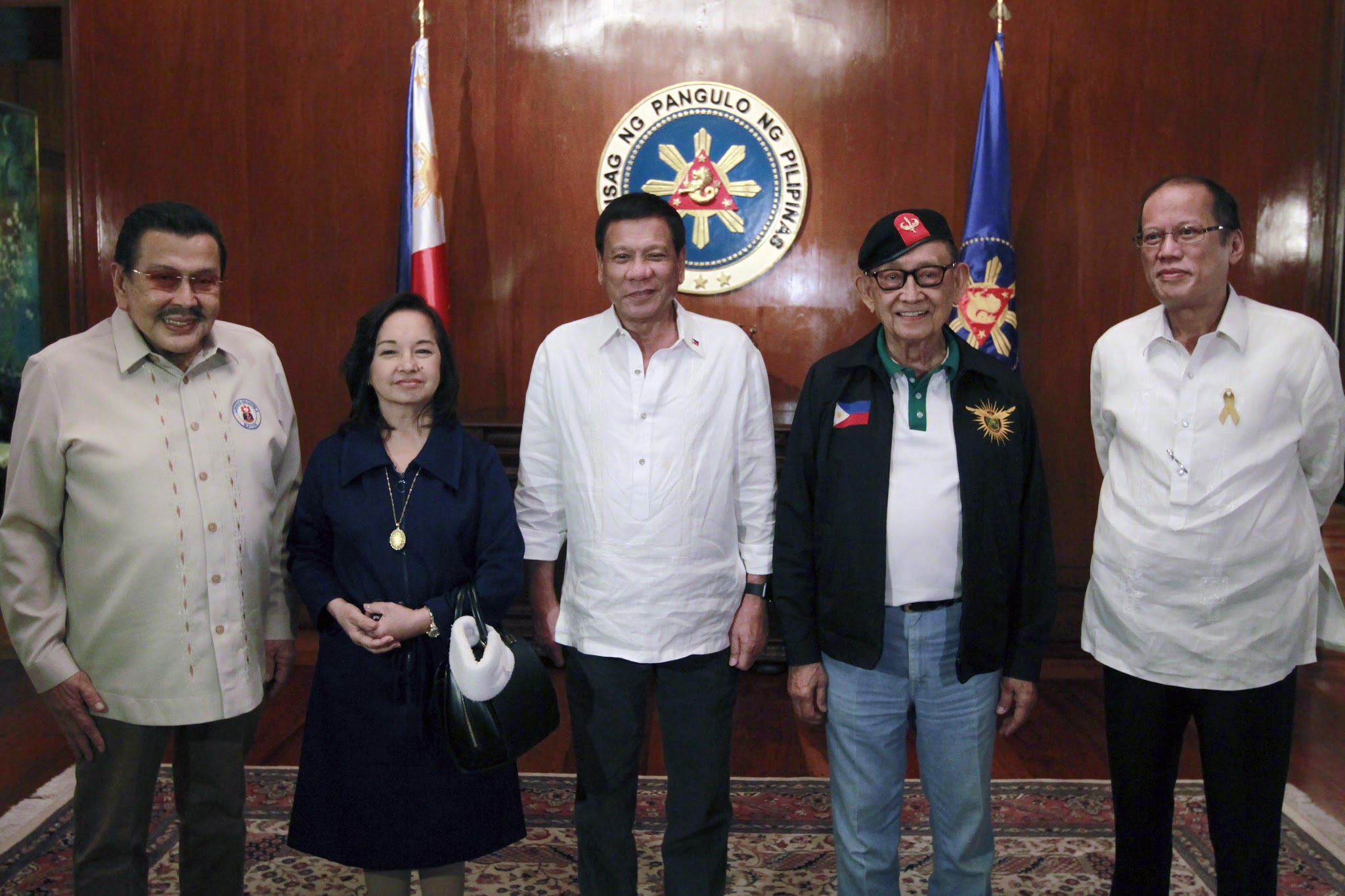 A photograph of Rodrigo Duterte and his predecessors at the Malacañang Palace. The official description is as follows: “ THEN AND NOW. President Rodrigo R. Duterte (center) poses with former President and Manila Mayor Joseph E. Estrada (left), former President and Pampanga Representative Gloria Macapagal-Arroyo (2nd from left), former President and Special Envoy to China Fidel V. Ramos (2nd from right), and former President Benigno S. Aquino III (right), before the start of the National Security Council (NSC) meeting at the State Dining Room of the Malacañan Palace on July 27. REY BANIQUET/PPD ”